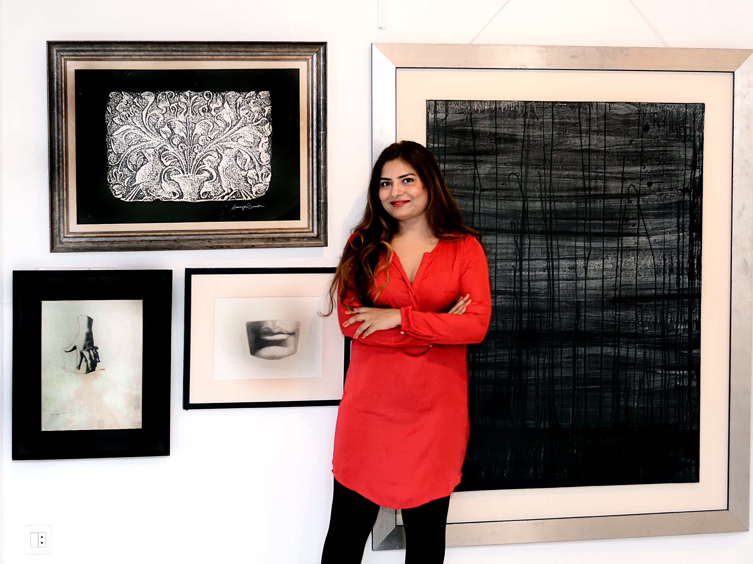 Artist Soraya Sikander at her studio, standing in front of her calligraphic landscape painting in black and atelier drawings